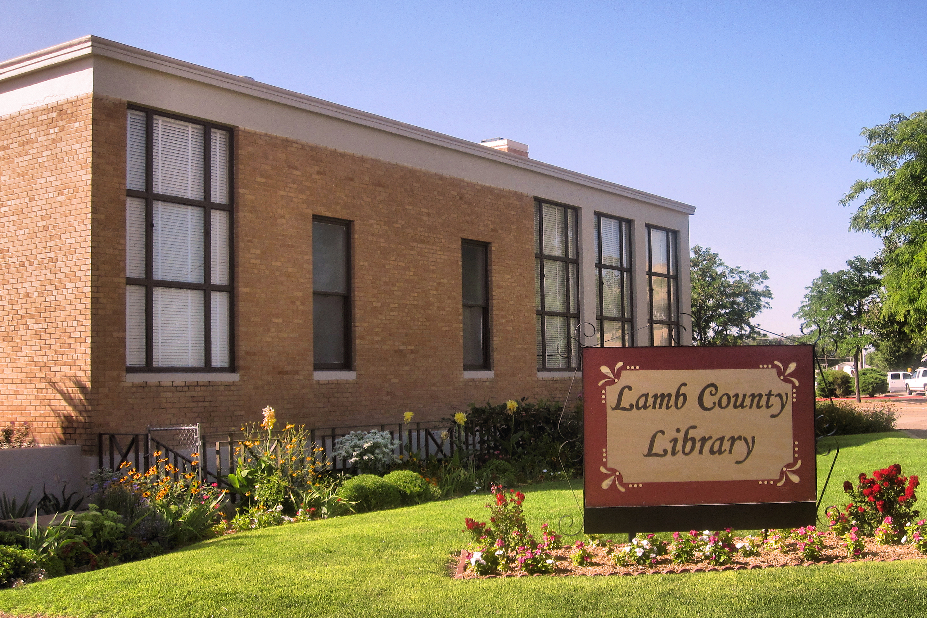 The historic Lamb County Library building in Littlefield, Texas was constructed as the city’s post office in 1940 with federal Treasury Department funds. I took photo with Canon camera.